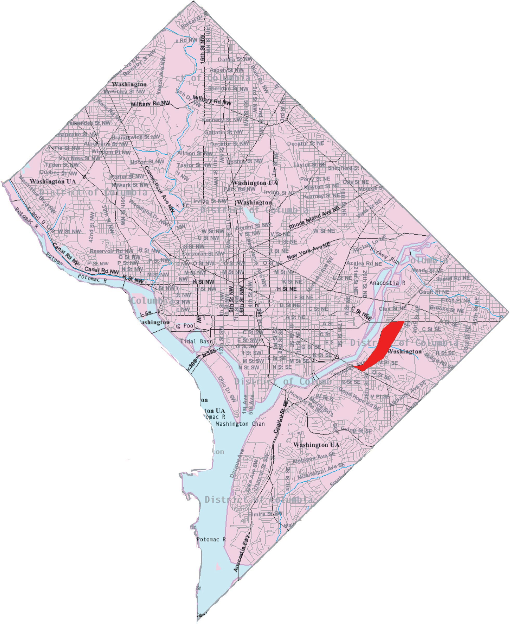 This image is a modified version of a self-generated reference map from the U.S. Census Bureau's American Factfinder at by Wikipedia user Msclguru.